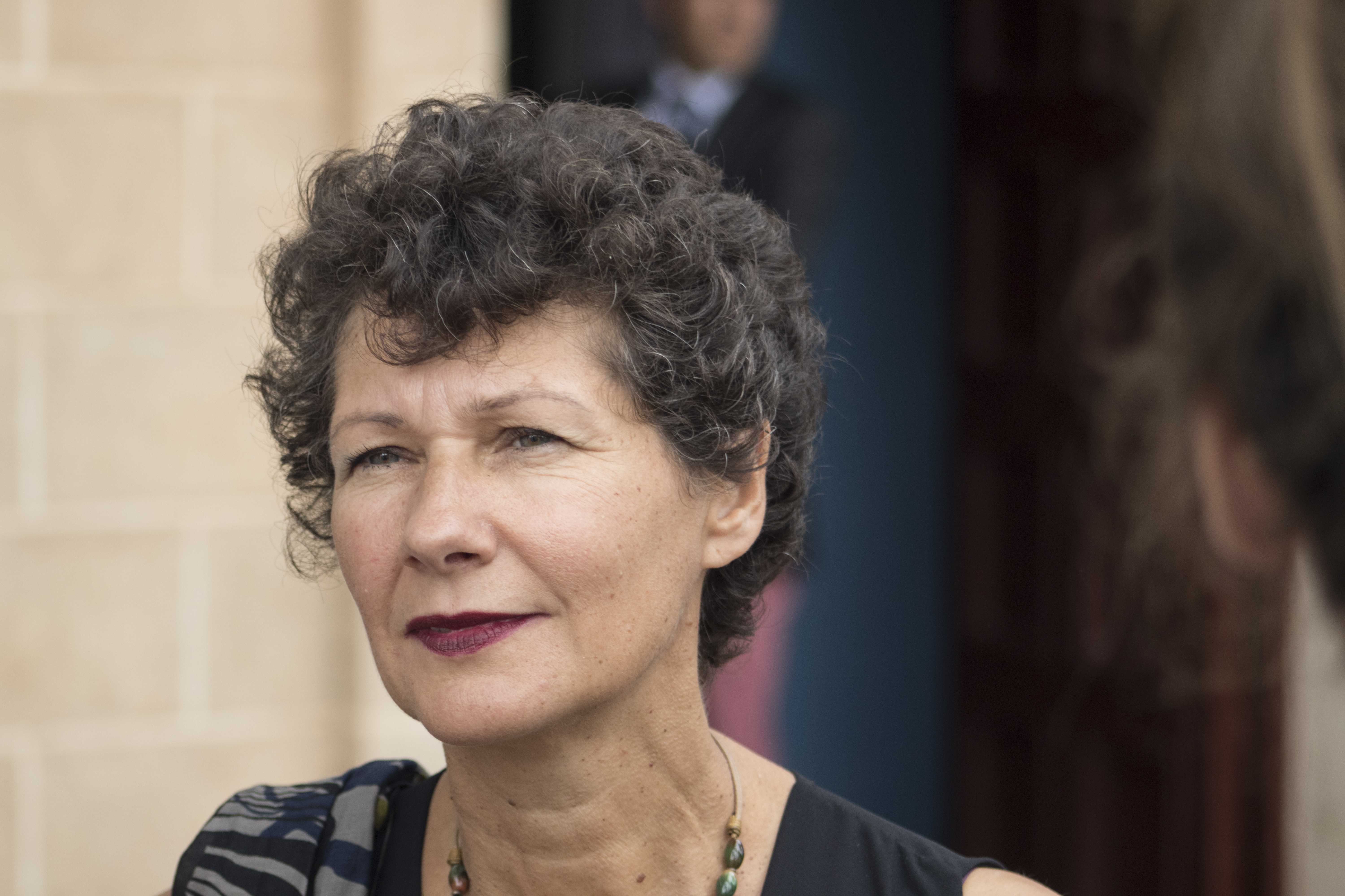 Historian and university professor Isabelle Cogitore, Autumn 2018